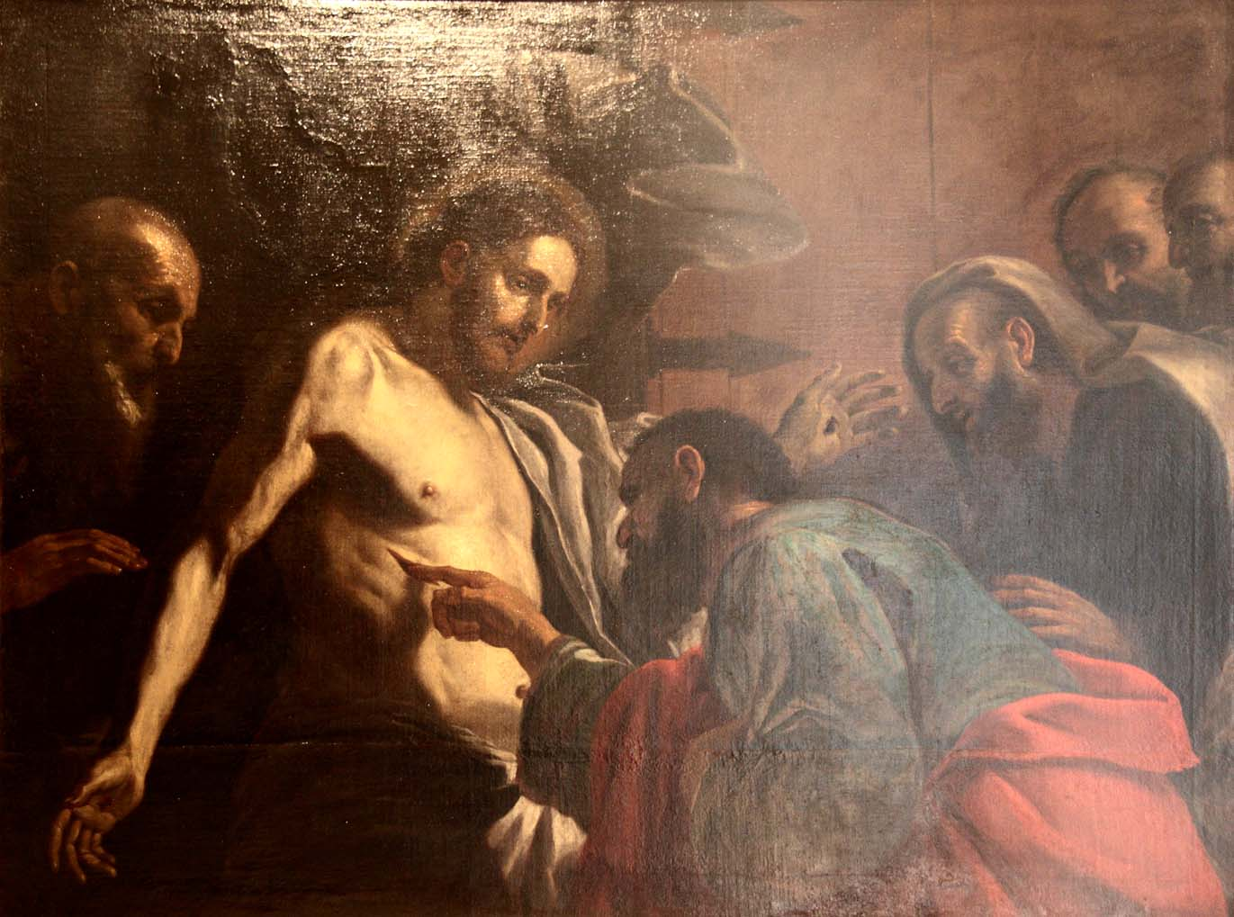 The incredulity of St. Thomas